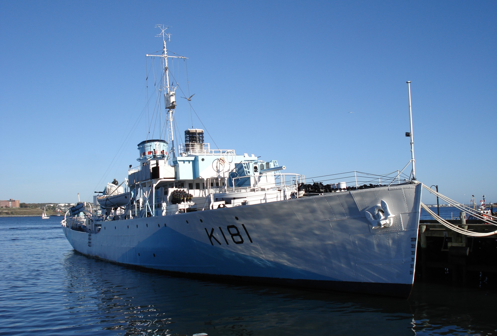 HMCS Sackville, Halifax Harbour. Picture taken October 9, en:2006 by Bryson109 (myself).